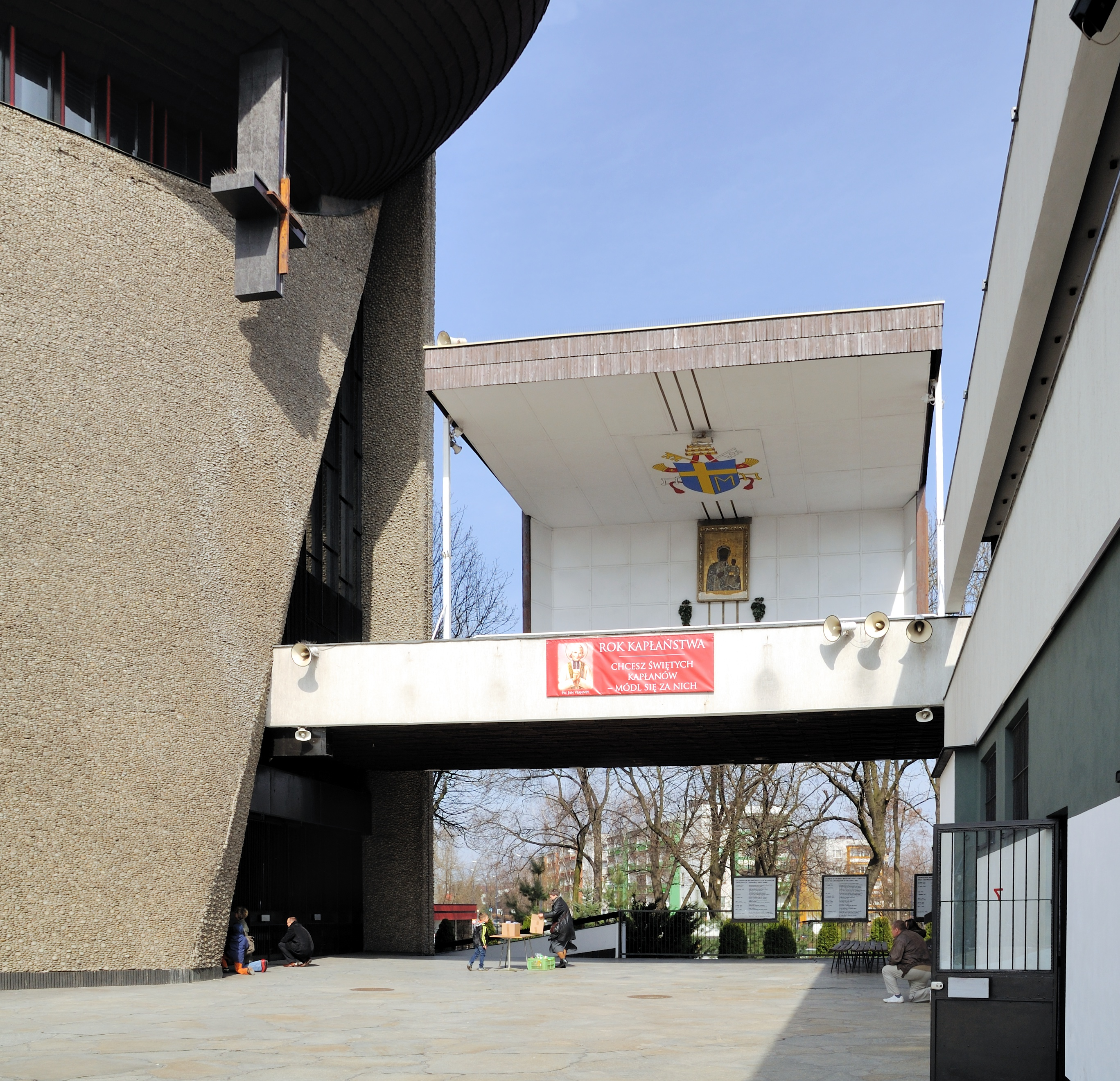 Kraków: The Lord's Ark church